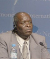 Ng'andu P. Magande, Minister of Finance and National Planning for Zambia at the 2003 IMF Annual Meetings